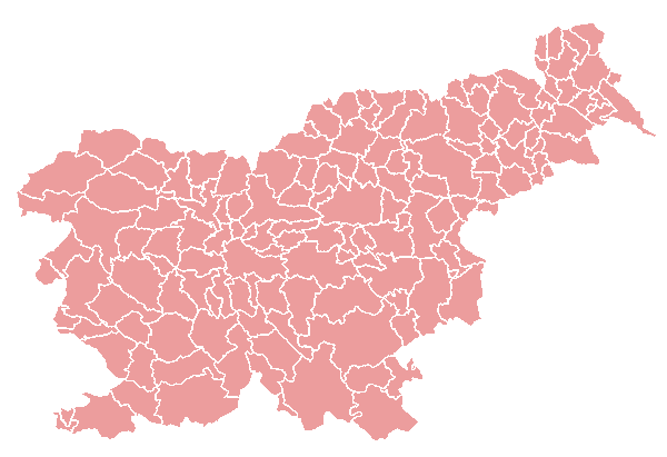 Municipalities in Slovenia.